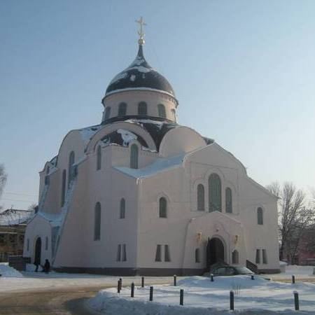 Tver, Cathedral of the Resurrection of Christ at Khristorozhdestvensky Monastery, built in 1913 after a project by Nikolay P. Omelyusty.